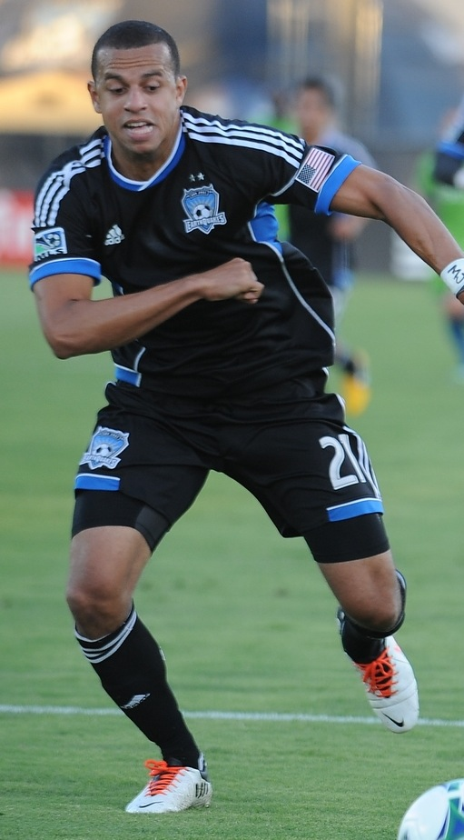 July 13, 2013 - Santa Clara, CA. The San Jose Earthquakes defeated the visiting Seattle Sounders FC 1-0. Photo by Joe Nuxoll / .